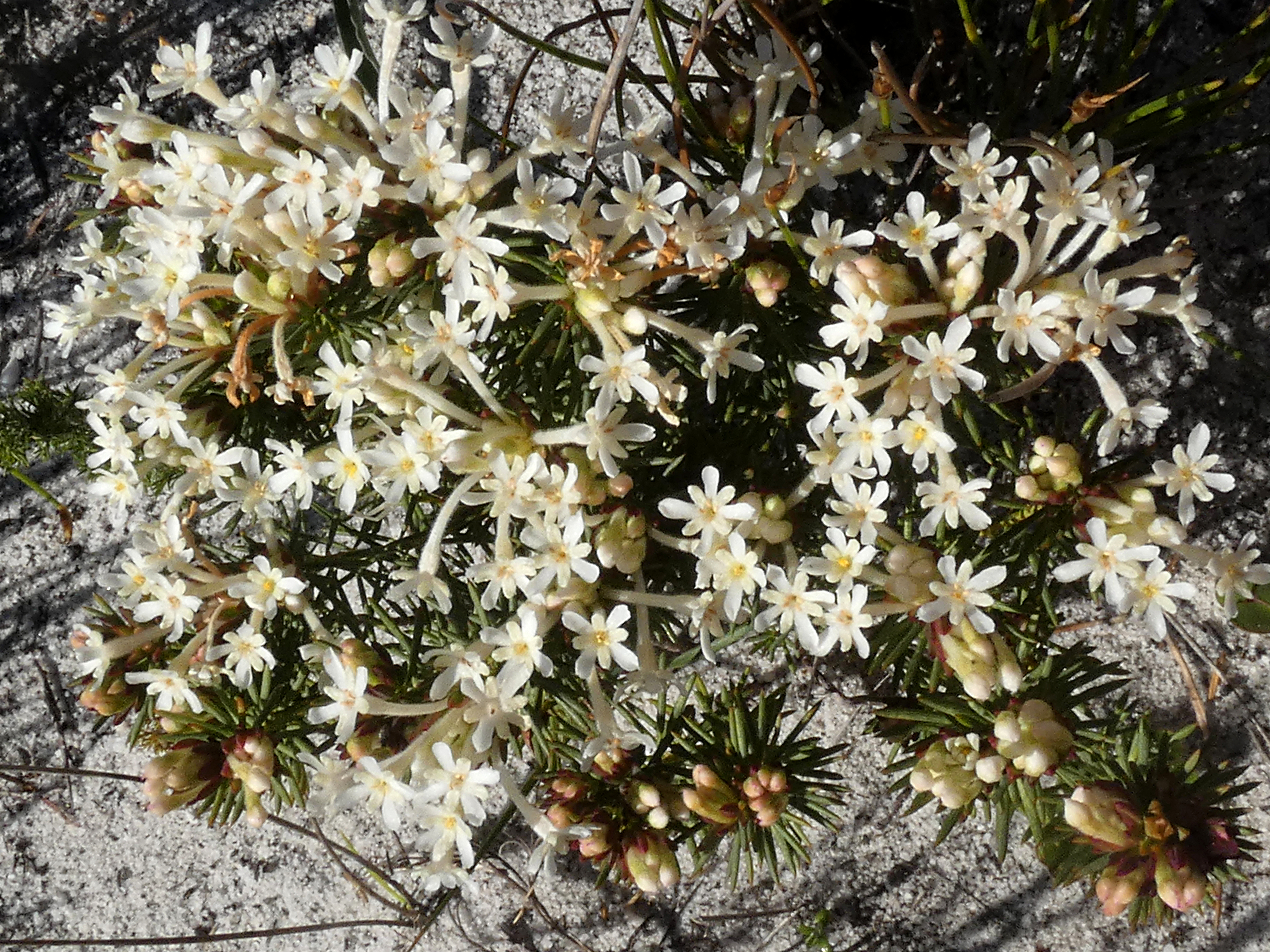 Gnidia pinifolia, photographed at Hangklip, near Pringlebaai, West-Kaap, Zuid-Afrika